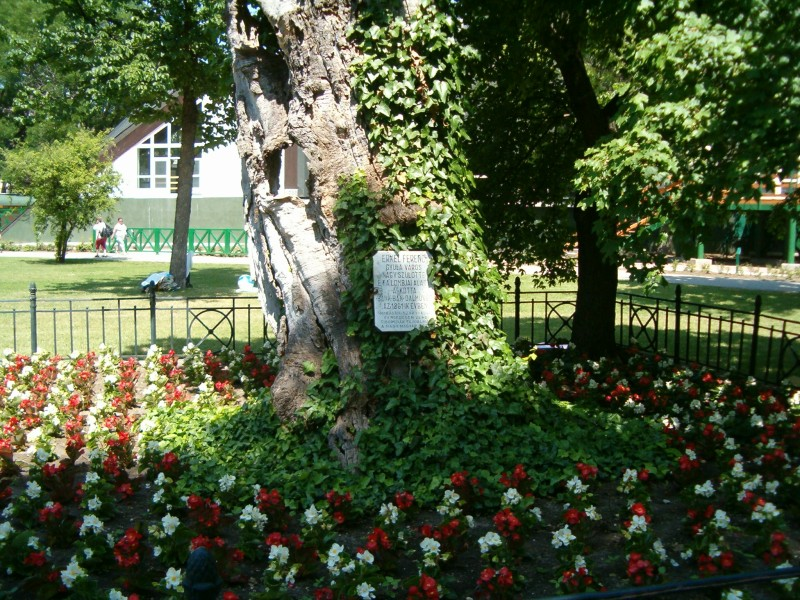 Erkel Ferenc composed his famous opus, the Bánk bán in the protection of this tree